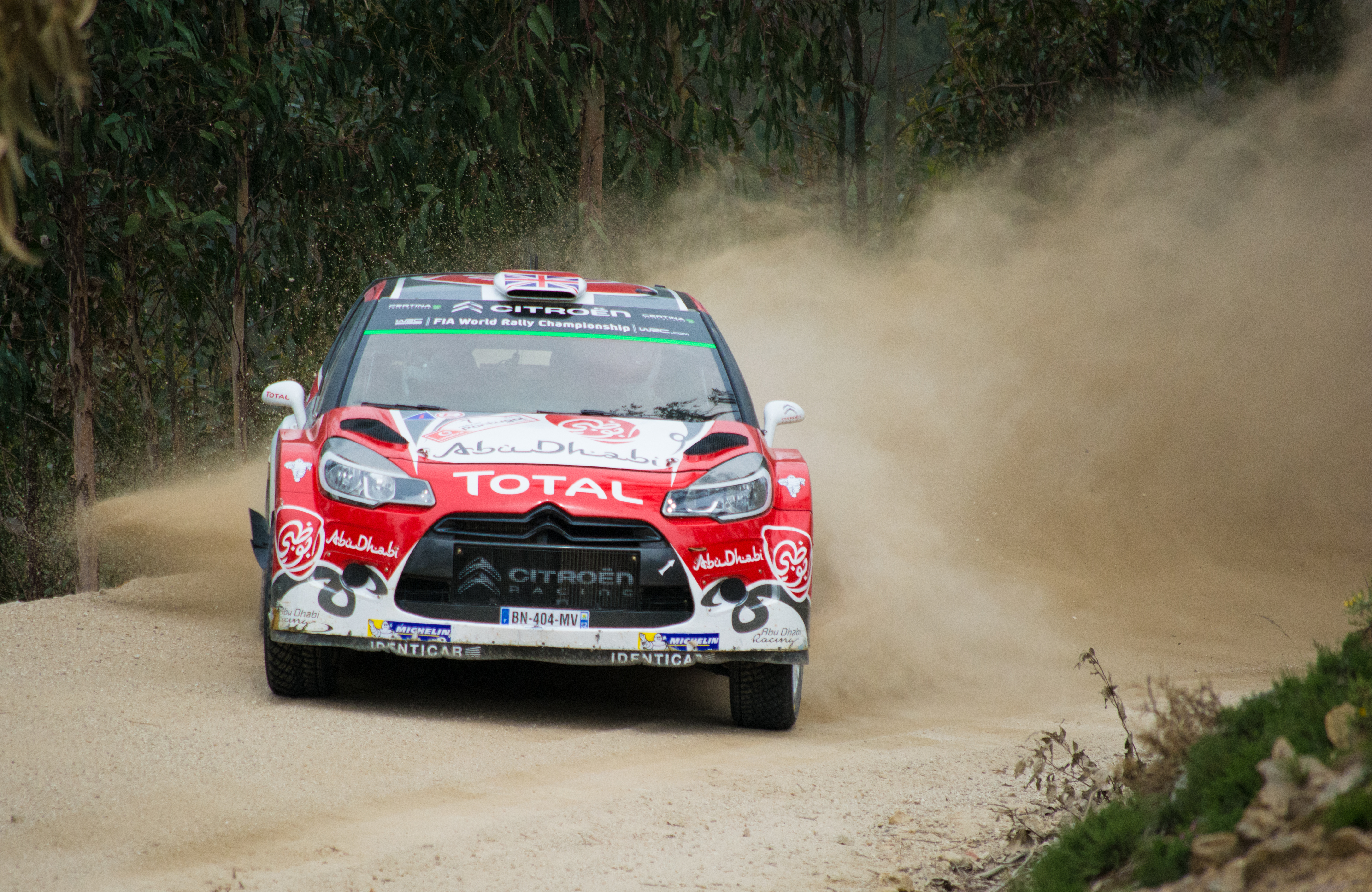 Rally of Portugal 2016. Section of "Amarante", on the first pass